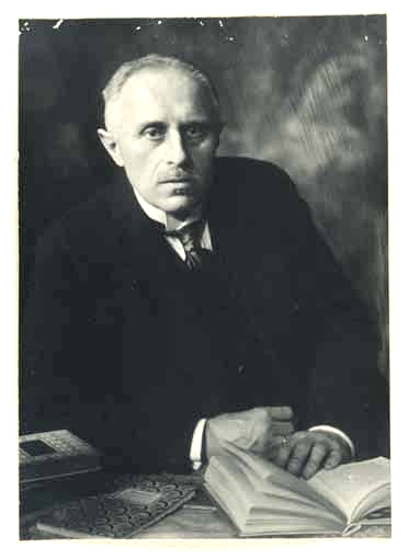 The german typographer Karl Klingspor (1868-1950)